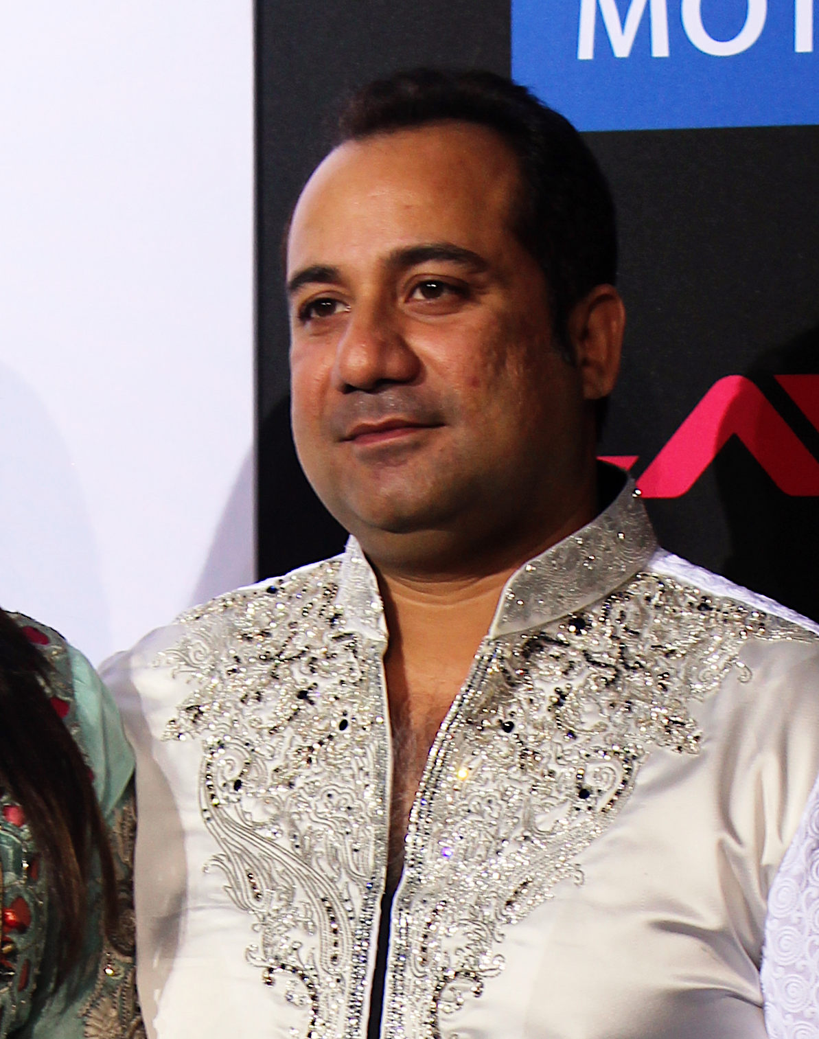 Rahat Fateh Ali Khan. Photo by James C. Dooley.